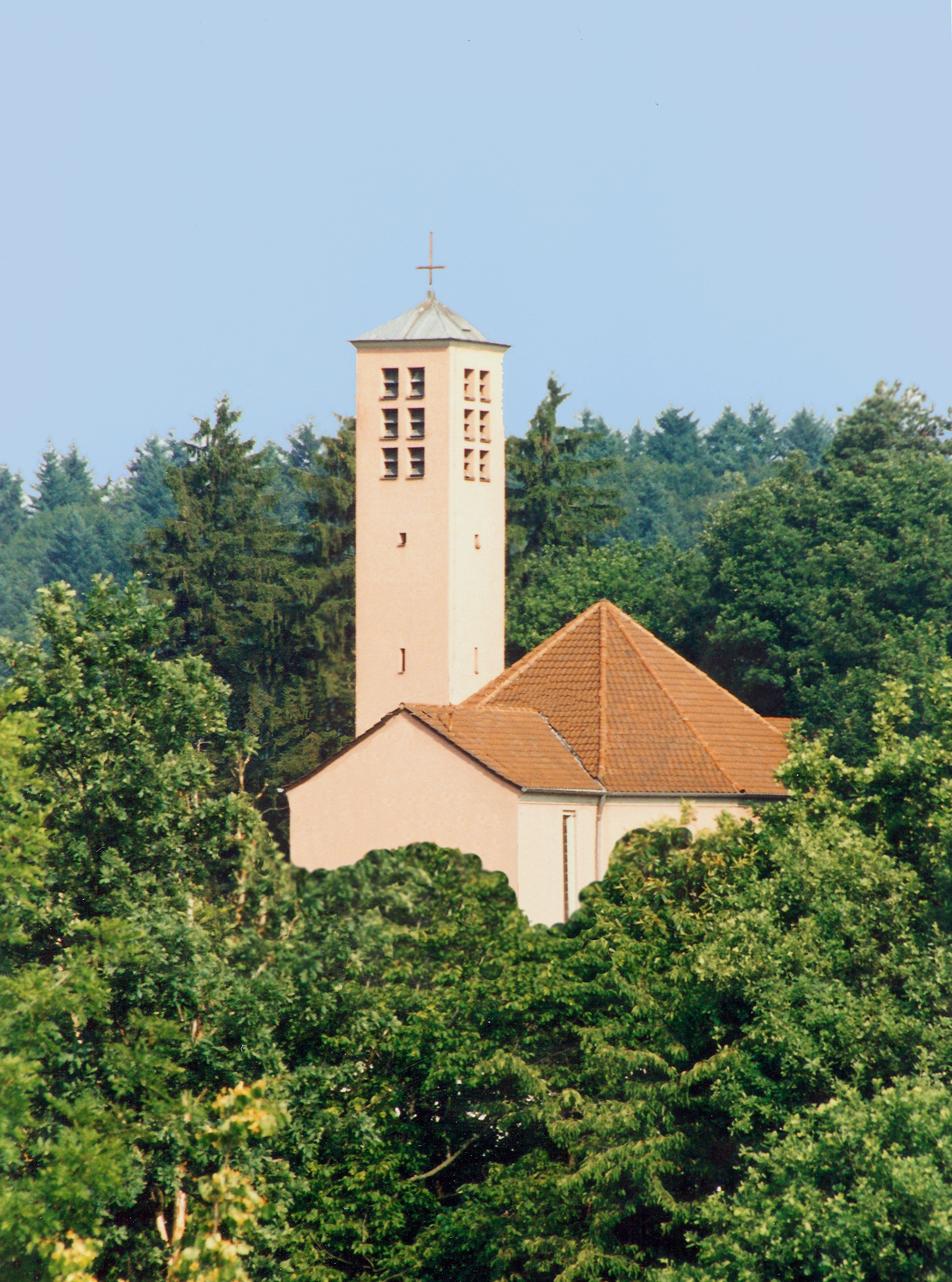 Herz Jesu Oberflockenbach, built by Prof Albert Boßlet in 1957